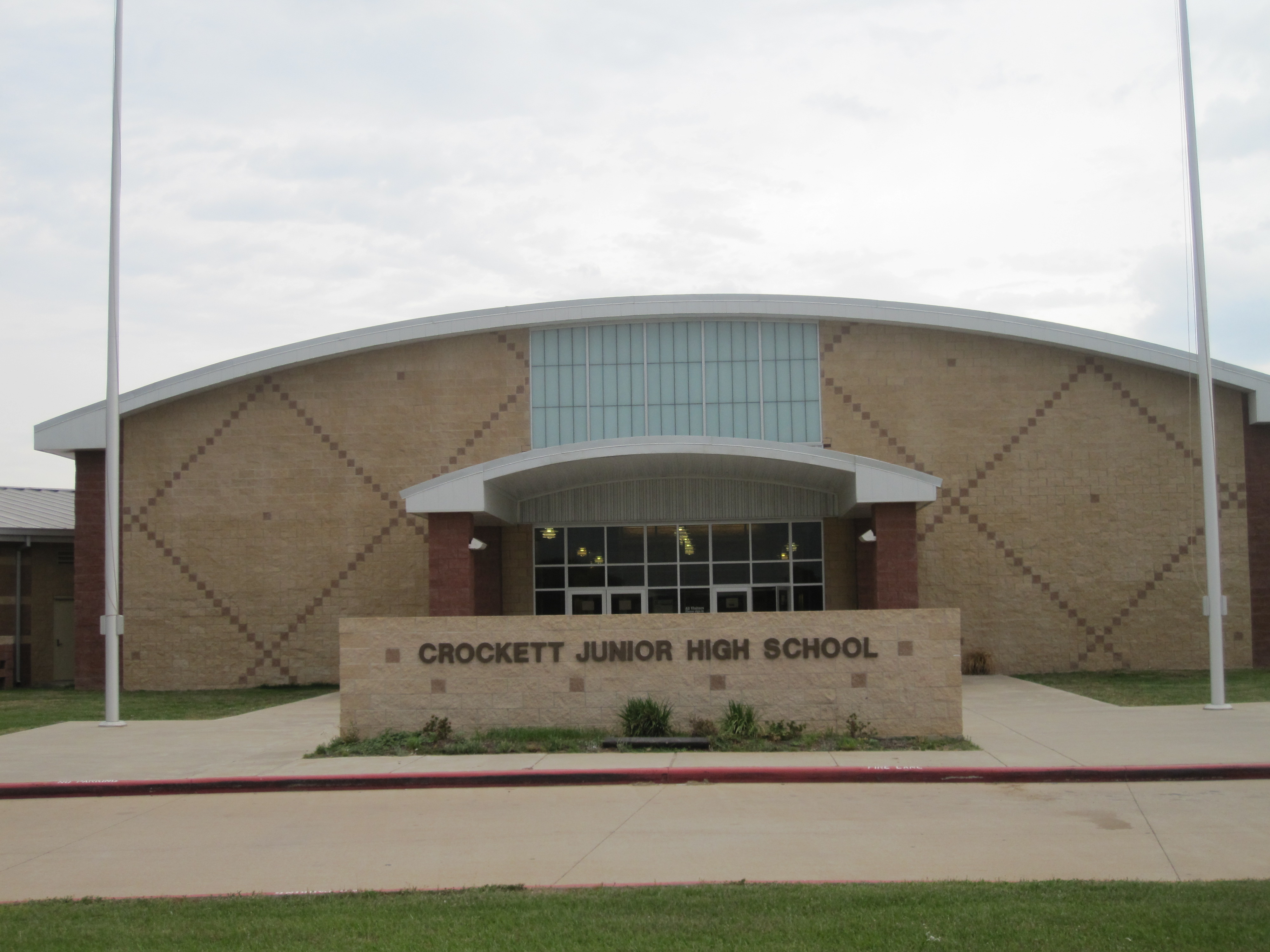 I took photo with Canon camera.